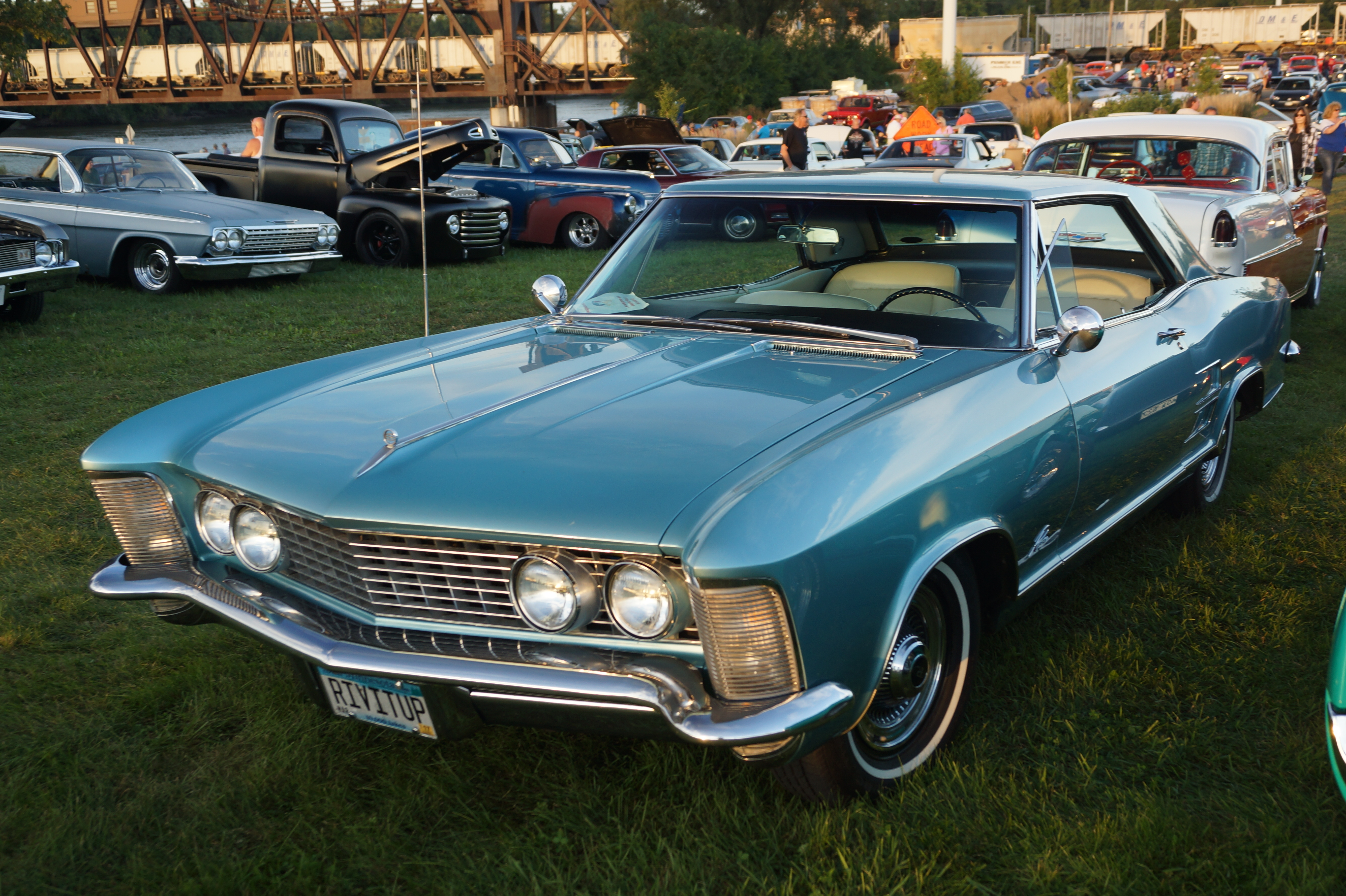 HISTORIC DOWNTOWN HASTINGS CRUISE-IN & CLASSIC CAR SHOW Hastings, Minnesota September 2016 Click here for more car pictures at my Flickr site.